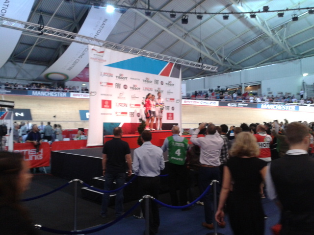 Podium of the women's sprint at the 2013-14 track cycling world cup in Manchester